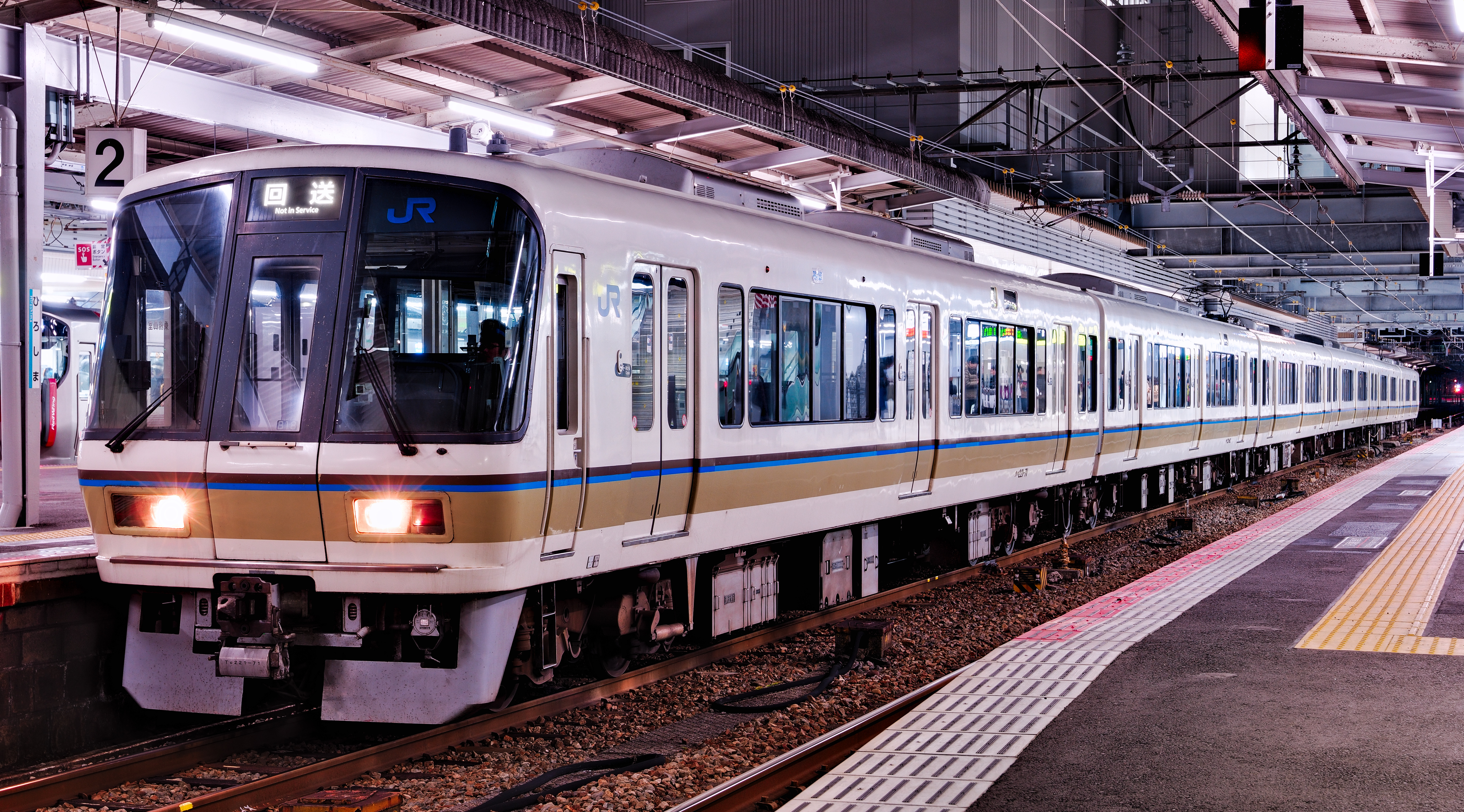 Set B18 of JR West 221 series EMU on its way to Hatabu Rail Works for renovation work.